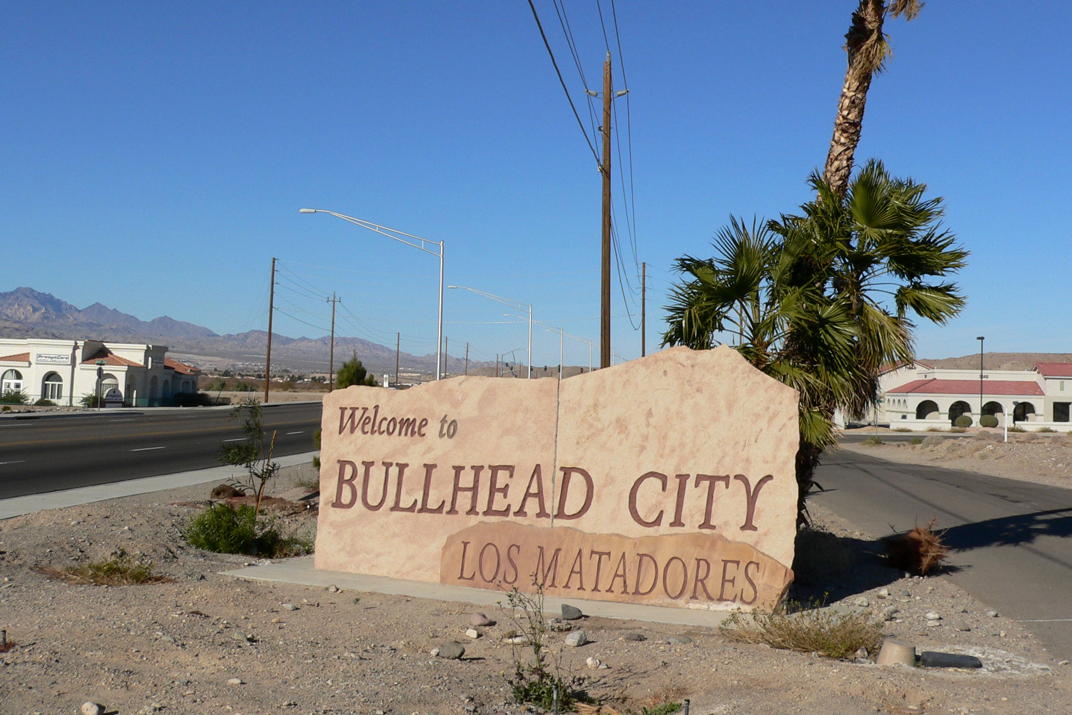 Sign for Bullhead City, Arizona